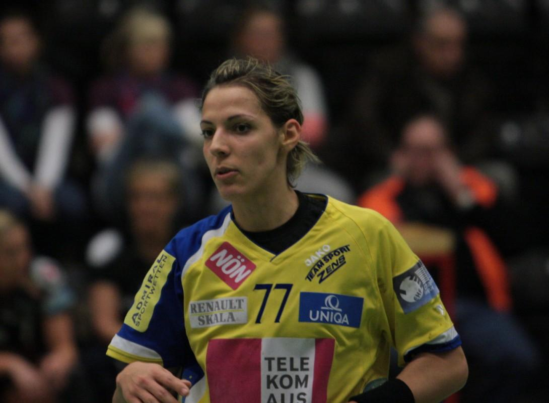 Gorica Aćimović, Austrian handball player, during a 2008/09 Champions League match between FC Midtjylland Håndbold and Hypo Niederösterreich. The picture was taken on 28 February 2009.